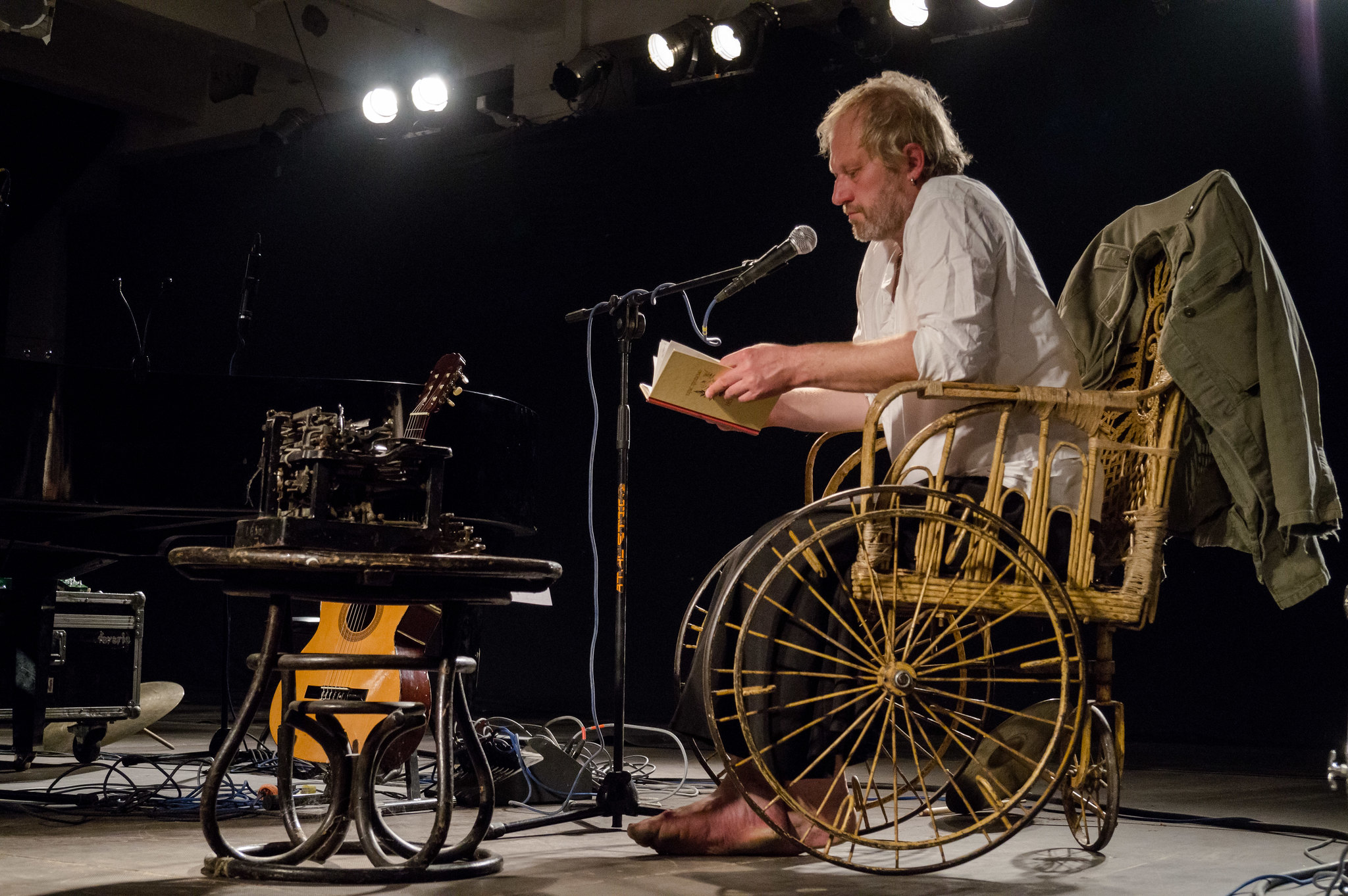 Dream-opera neprOsti, Taras Prokhasko. Photo Artem Galkin